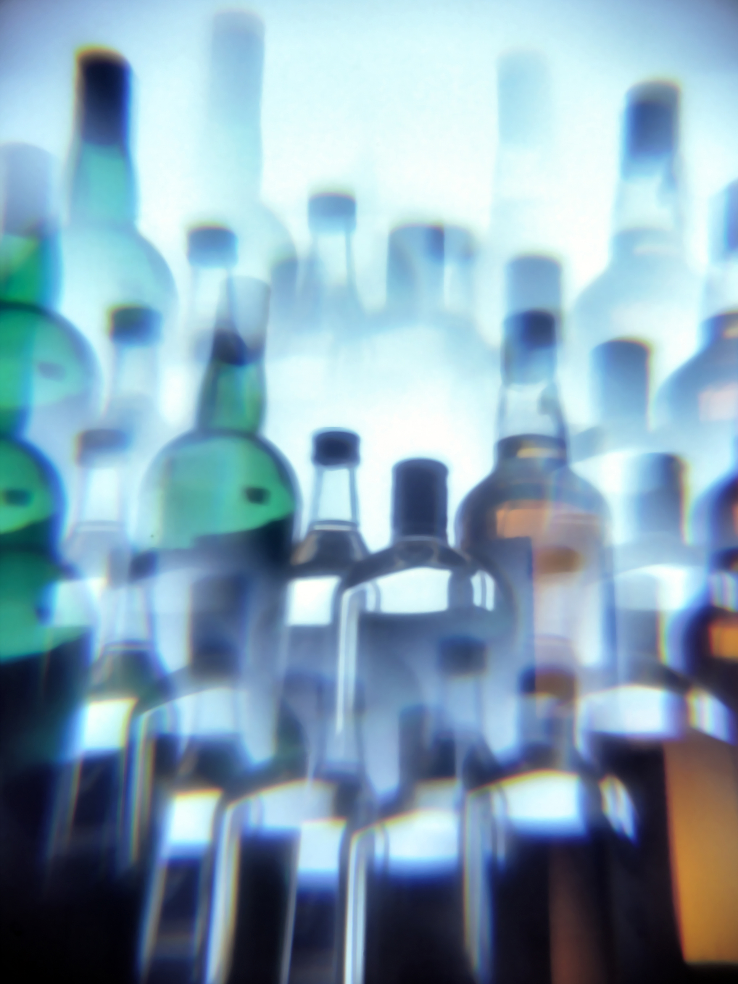 Alcohol bottles through multiprism filter